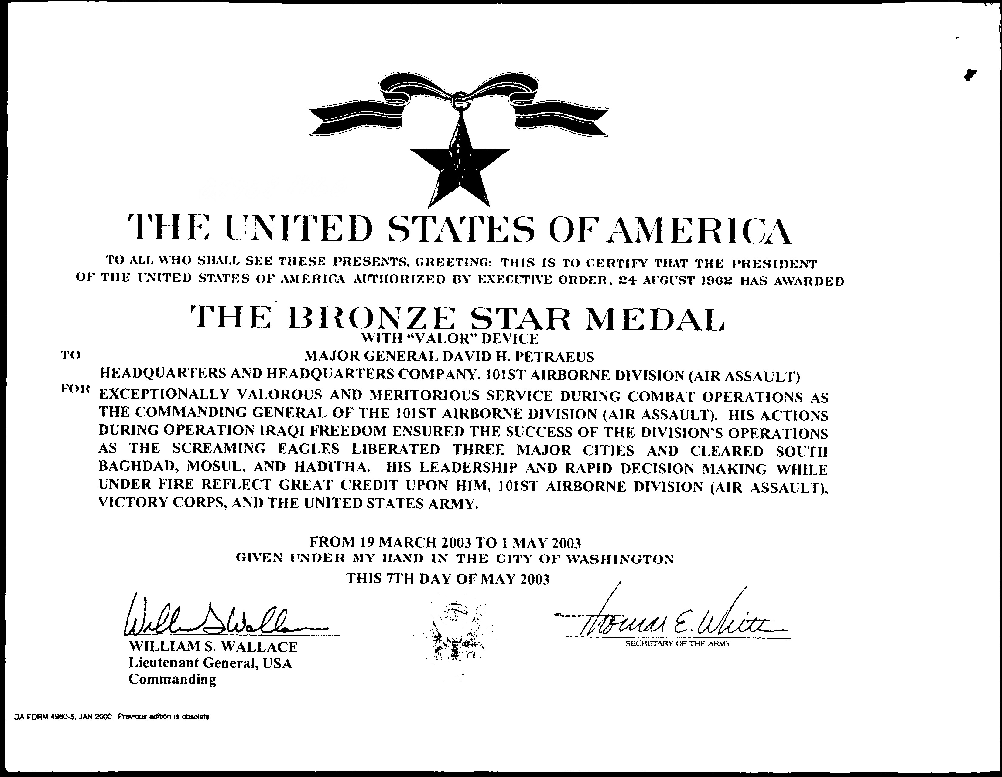 Award of the Bronze Star Medal with V Device awarded to then Major General David H. Petraeus for actions in combat leading the 101st Airborne (Air Assault) Division during Iraqi Freedom, awarded May 2003.